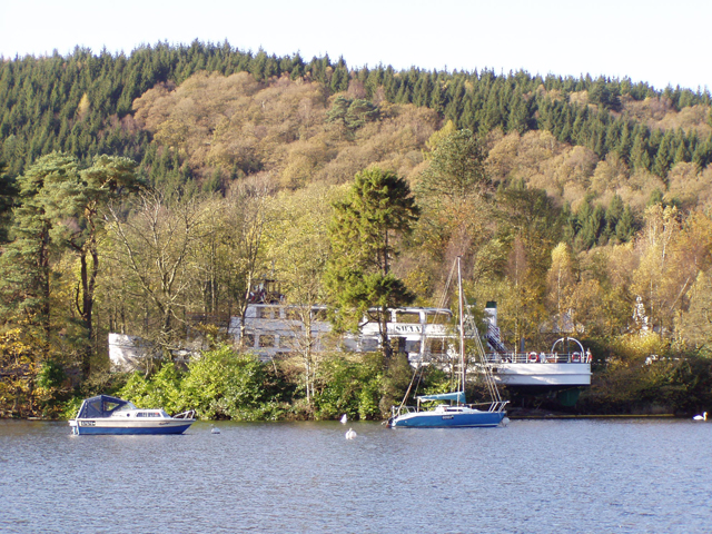 Swan on slipway for maintenance